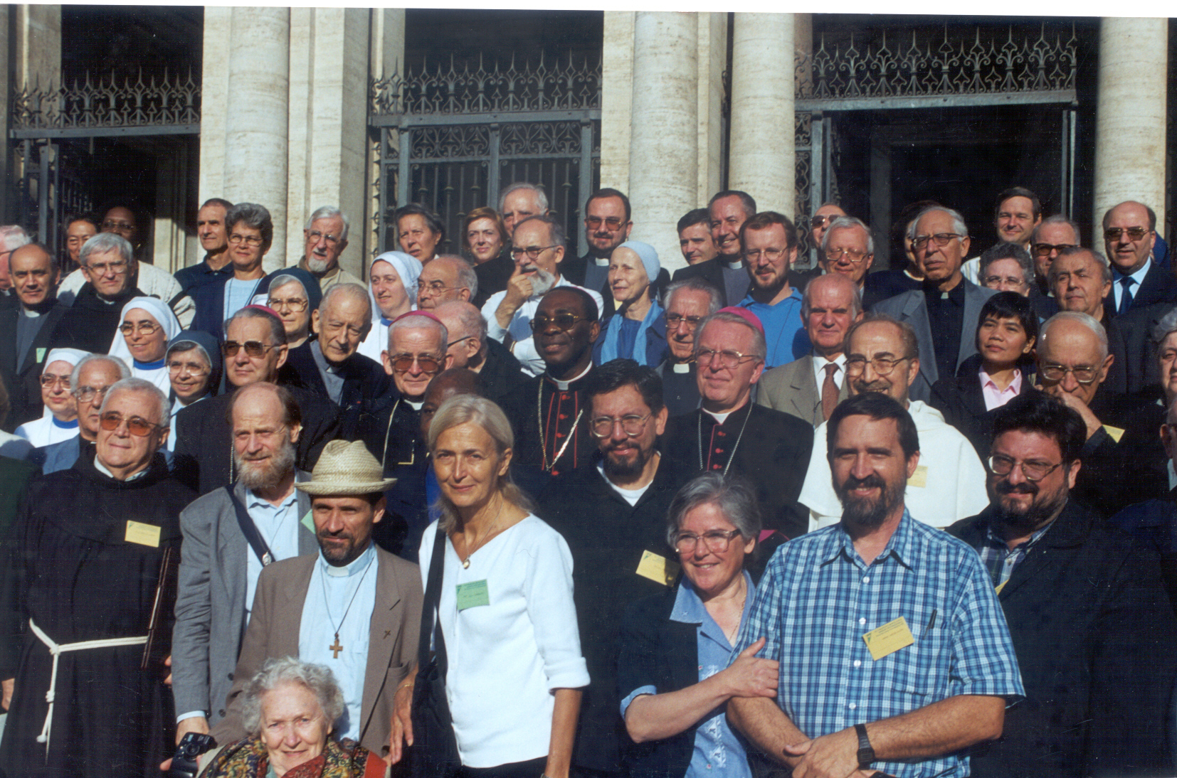 Congresso Roma 2000